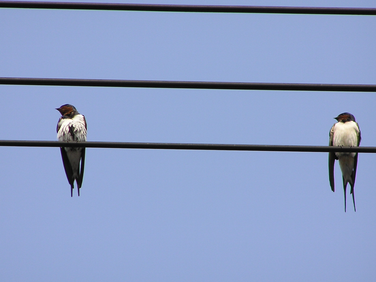 Barn Swallow in Japan